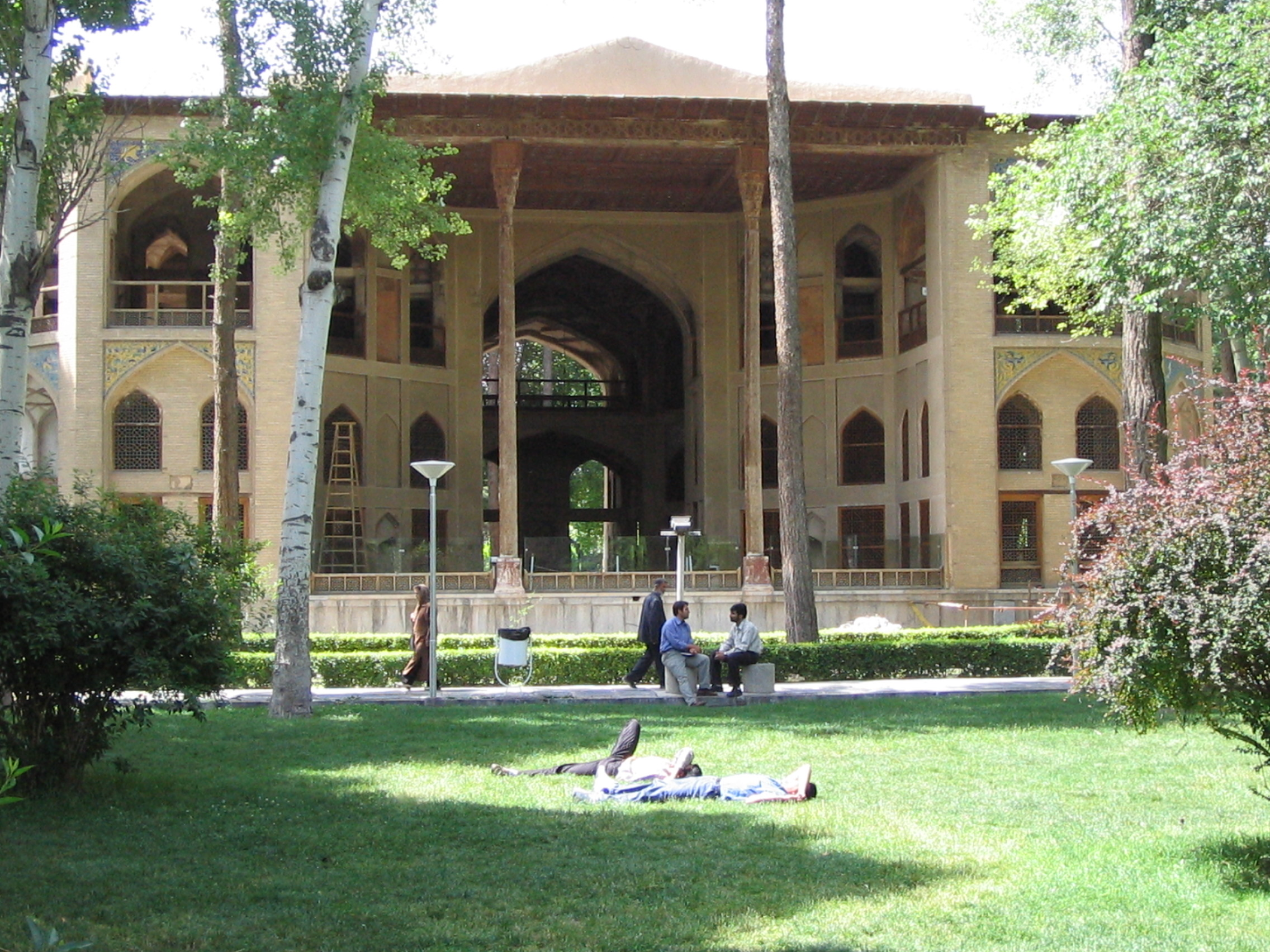 Hasht Behesht Palace crushed under the sun, Esfahan, Iran.